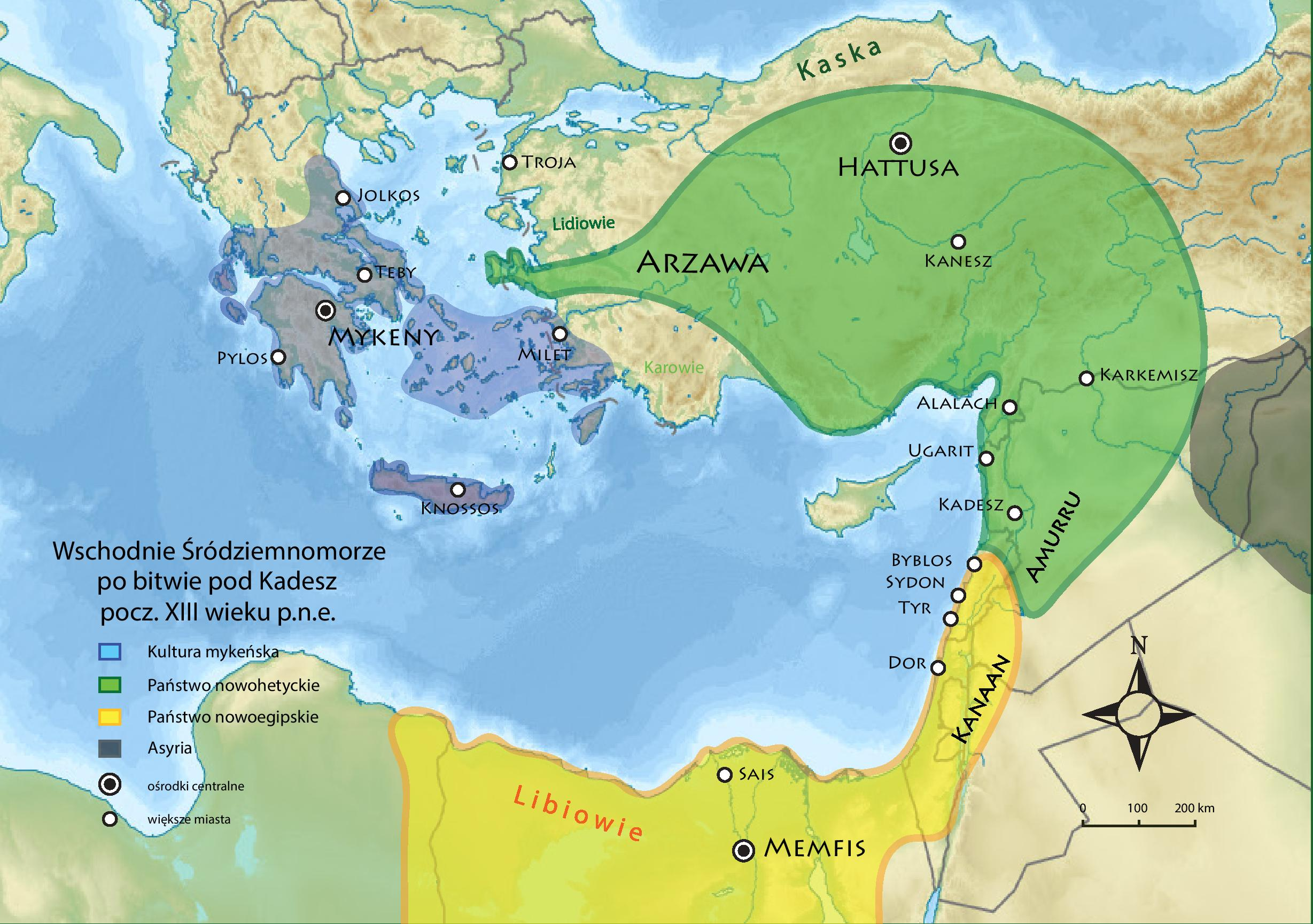 Ancient Near East after the battle of Kadesh 1300 B.C.